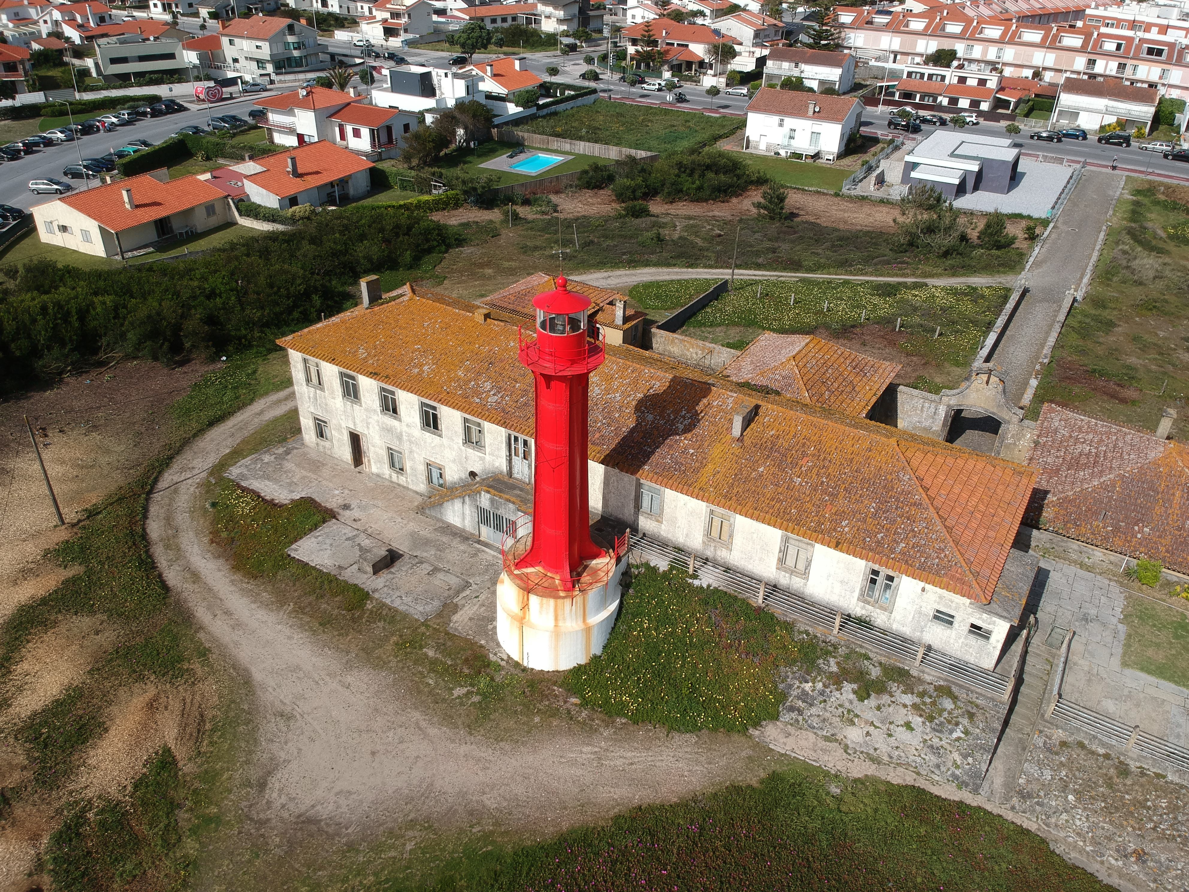 Aerial photograph of Esposende, Portugal.